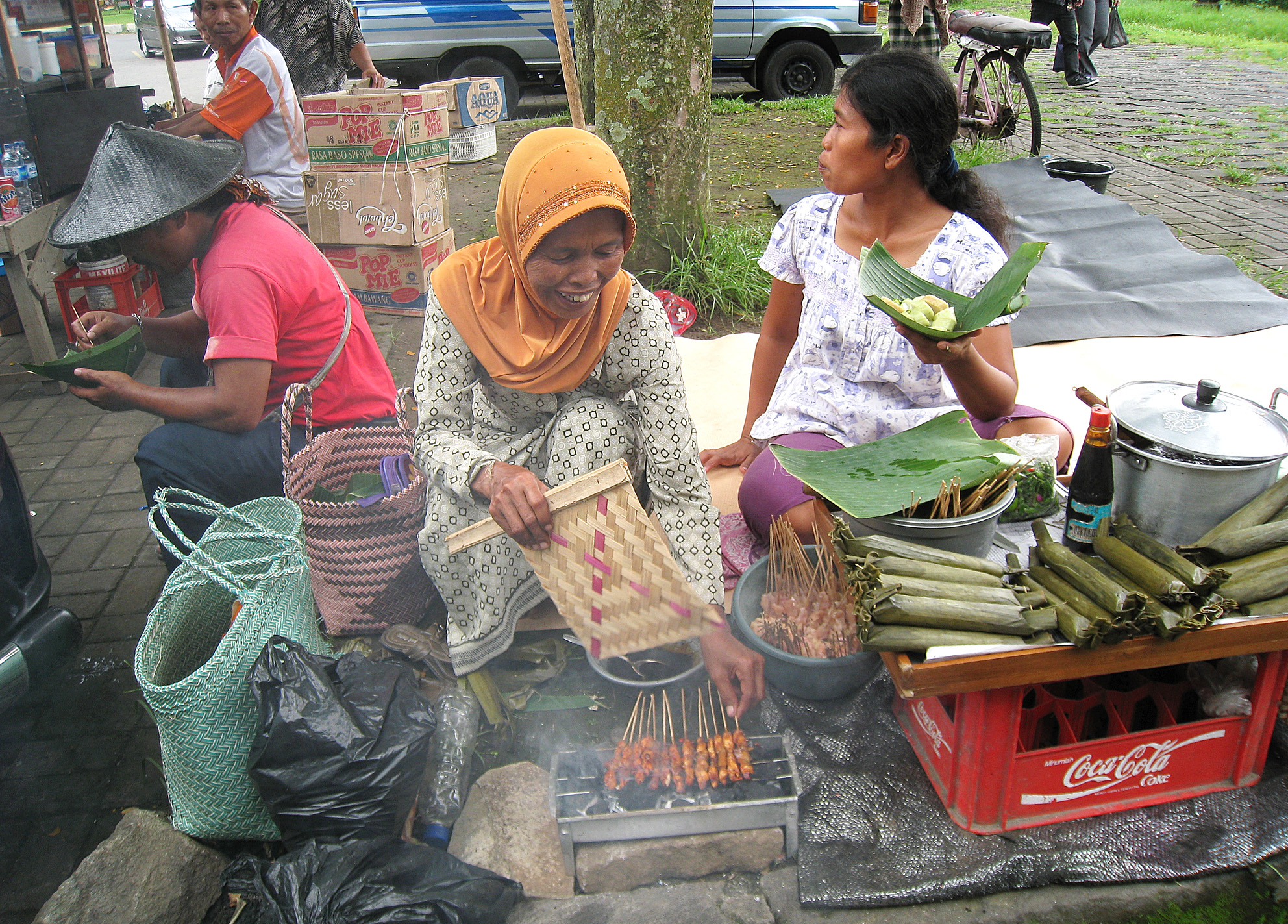 A humble "kakilima" or road side chicken satay seller near Borobudur, Central Java.